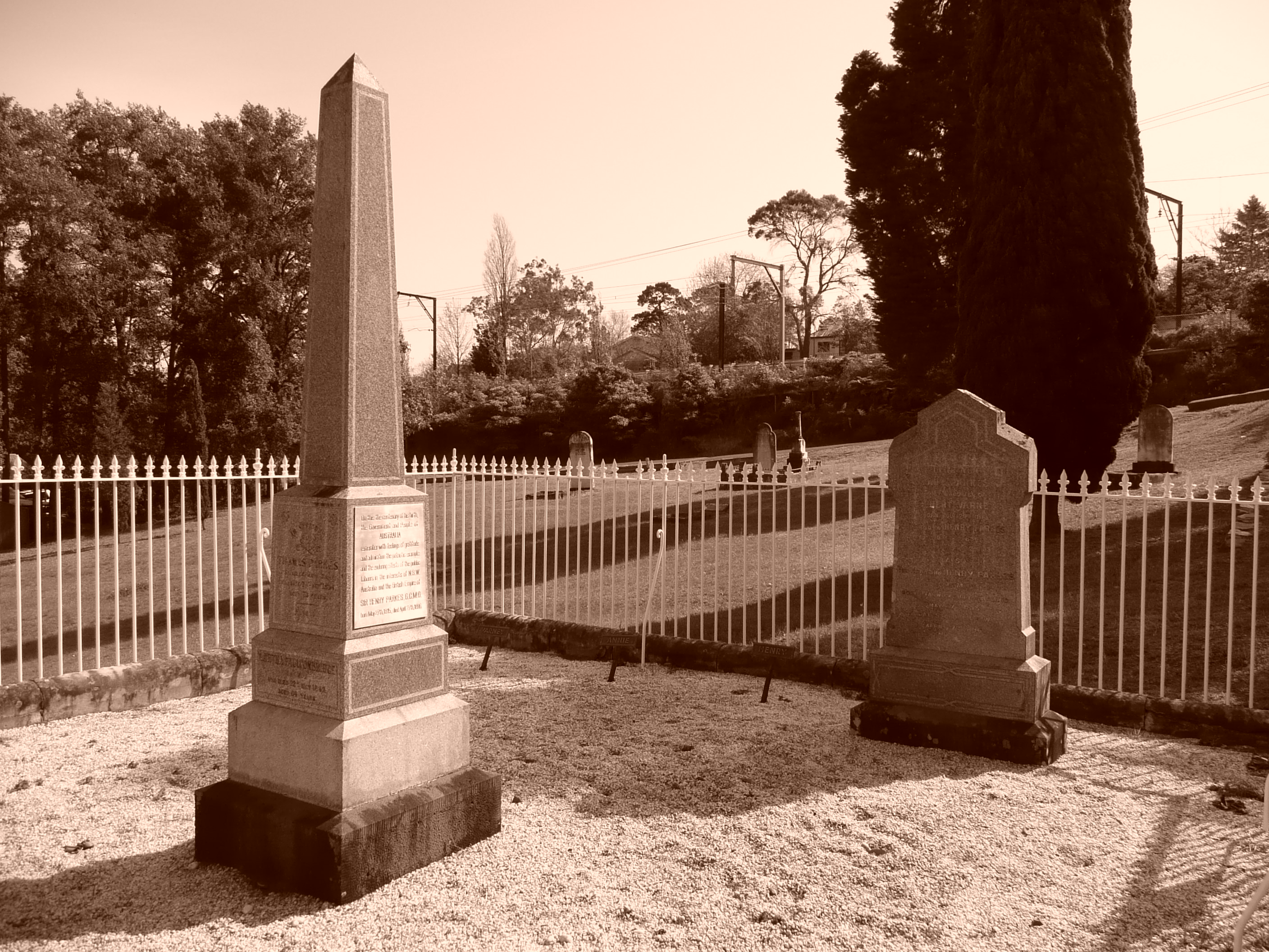 Henry Parkes grave, Faulconbridge Cemetery, Faulconbridge, NSW, Australia